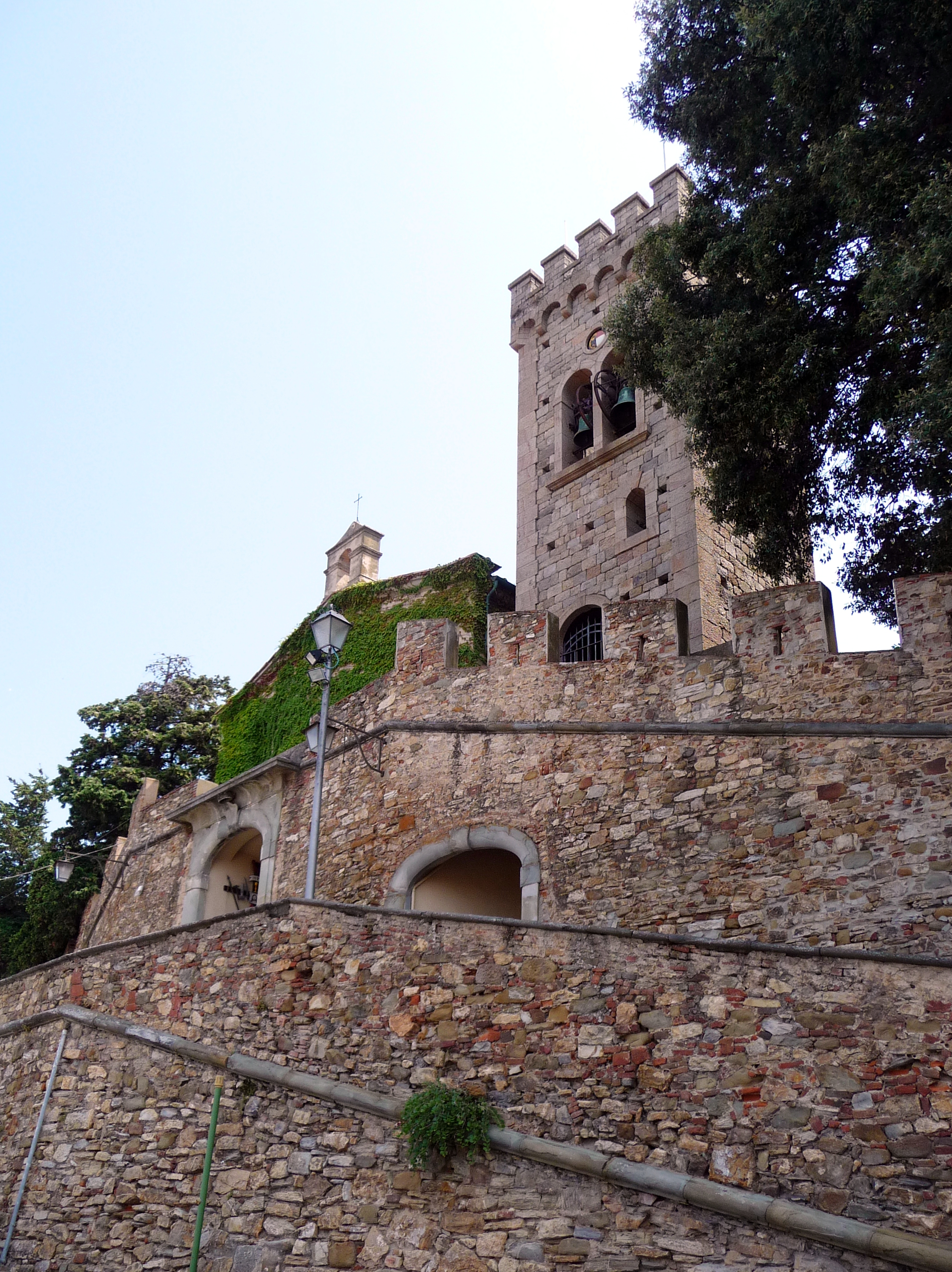 Church Propositura di San Lorenzo, Castagneto Carducci, Tuscany, Italy